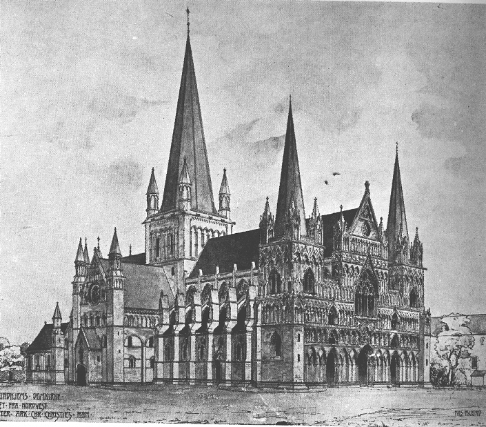 Restoration of the west front of Nidaros Cathedral, Trondheim, Norway. Drawing by Nils Rydjord (1907) after plans by Chr. Christie (1906).